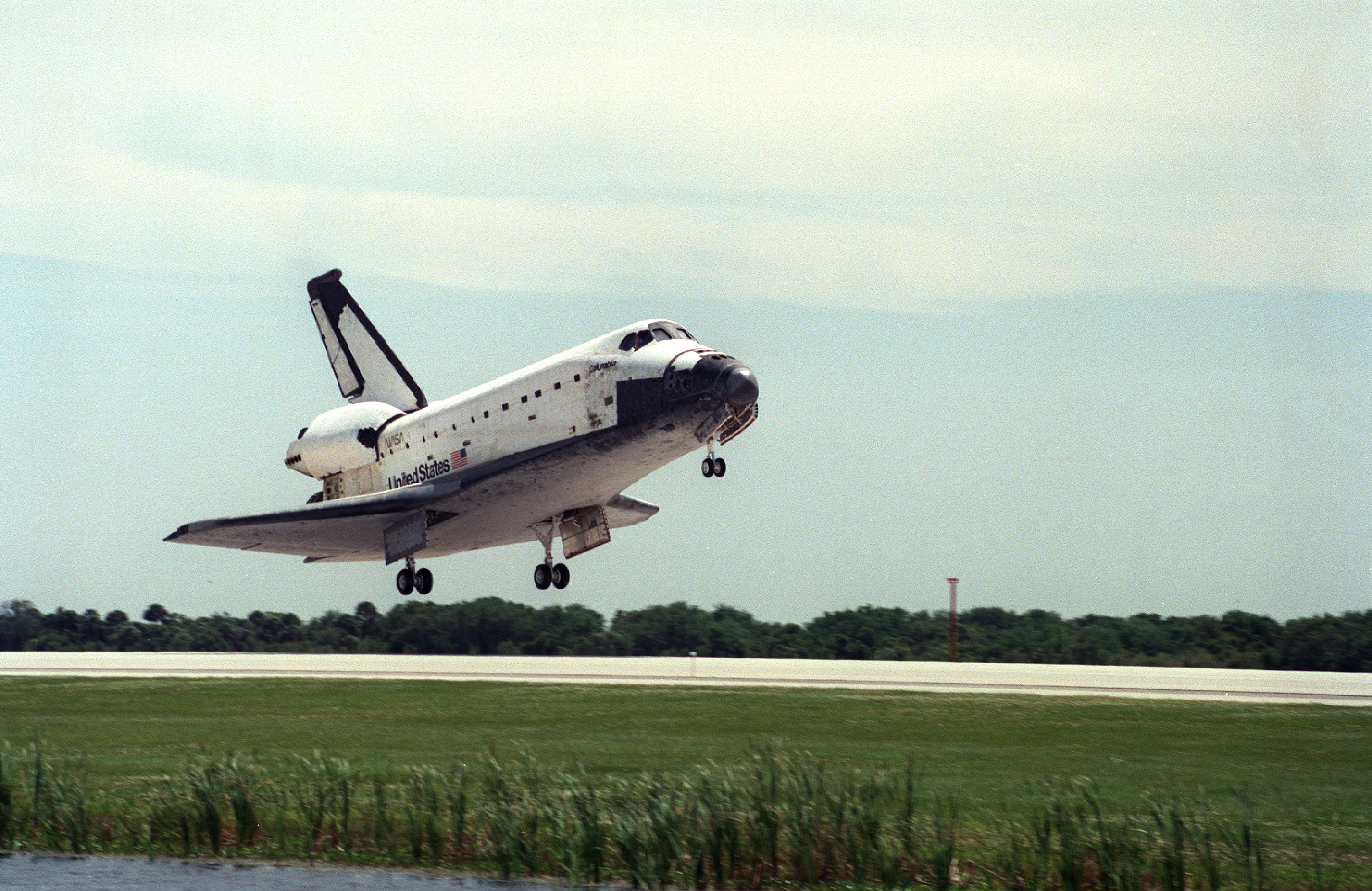 The Space Shuttle Columbia nears touchdown on the Shuttle Landing Facility (SLF) runway at the Kennedy Space Center (KSC), after completing almost four days of a scheduled 16-day mission in Earth-orbit. A problem with one of three fuel cells led to an early landing for the seven-member Microgravity Science Laboratory 1 (MSL-1) crew. Touchdown occurred at 17:33:11 on 8 April 1997. Aboard Columbia were James D. Halsell, Jr., Susan L. Still, Janice E. Voss, Donald A. Thomas, Michael L. Gernhardt, Roger K. Crouch and Gregory T. Linteris.